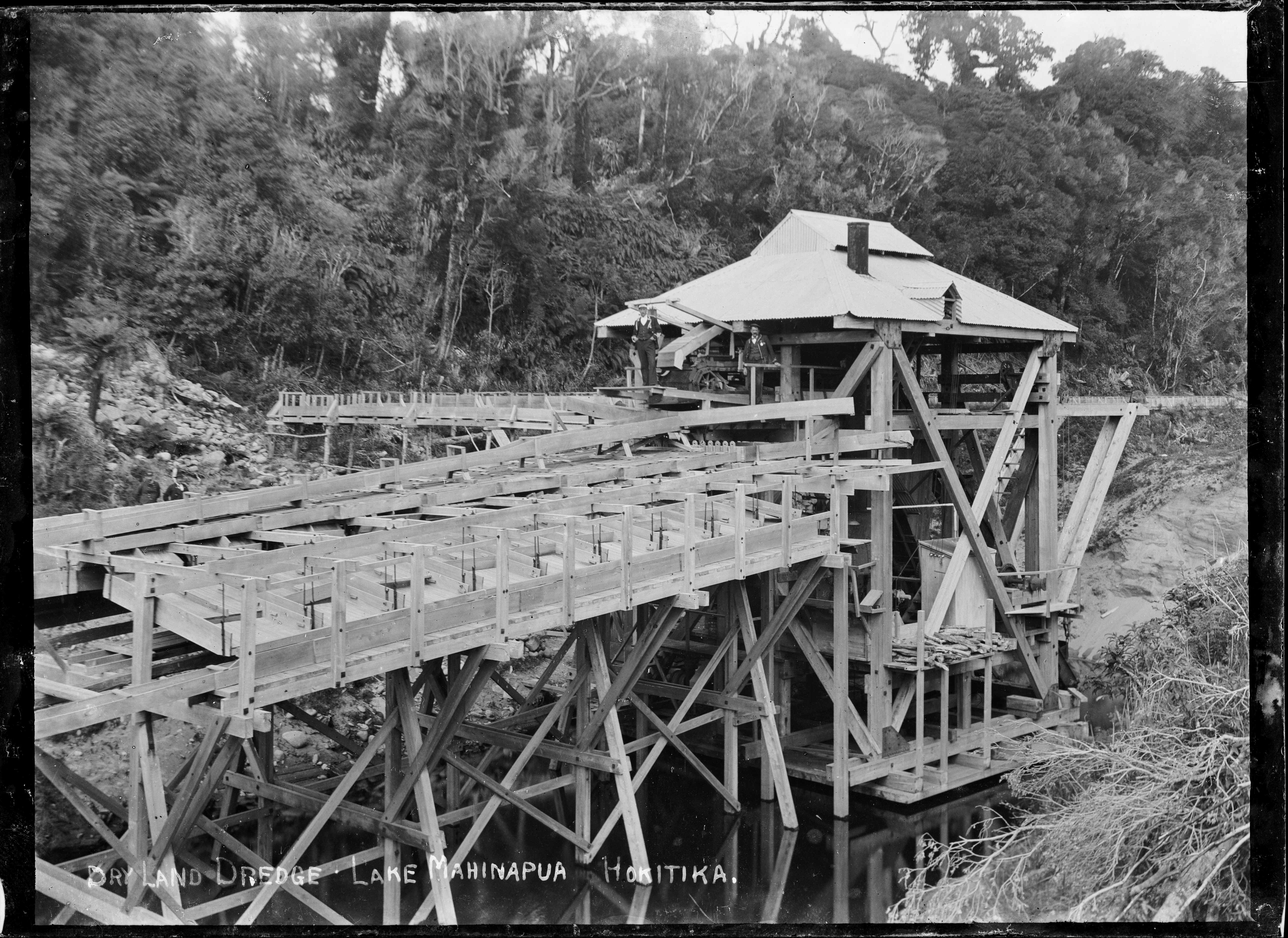 Dry land dredge at Lake Mahinapua, Hokitika, photographed by A P Godber.